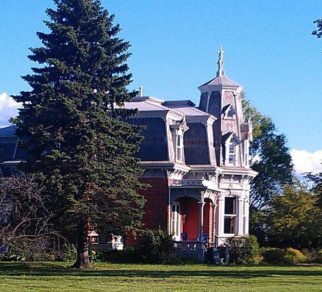 Burtis Home 1890s